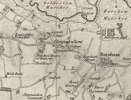 19th Century Map of Shipmeadow